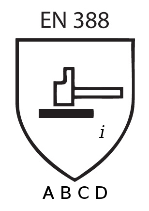 Sign of European Norm EN 388